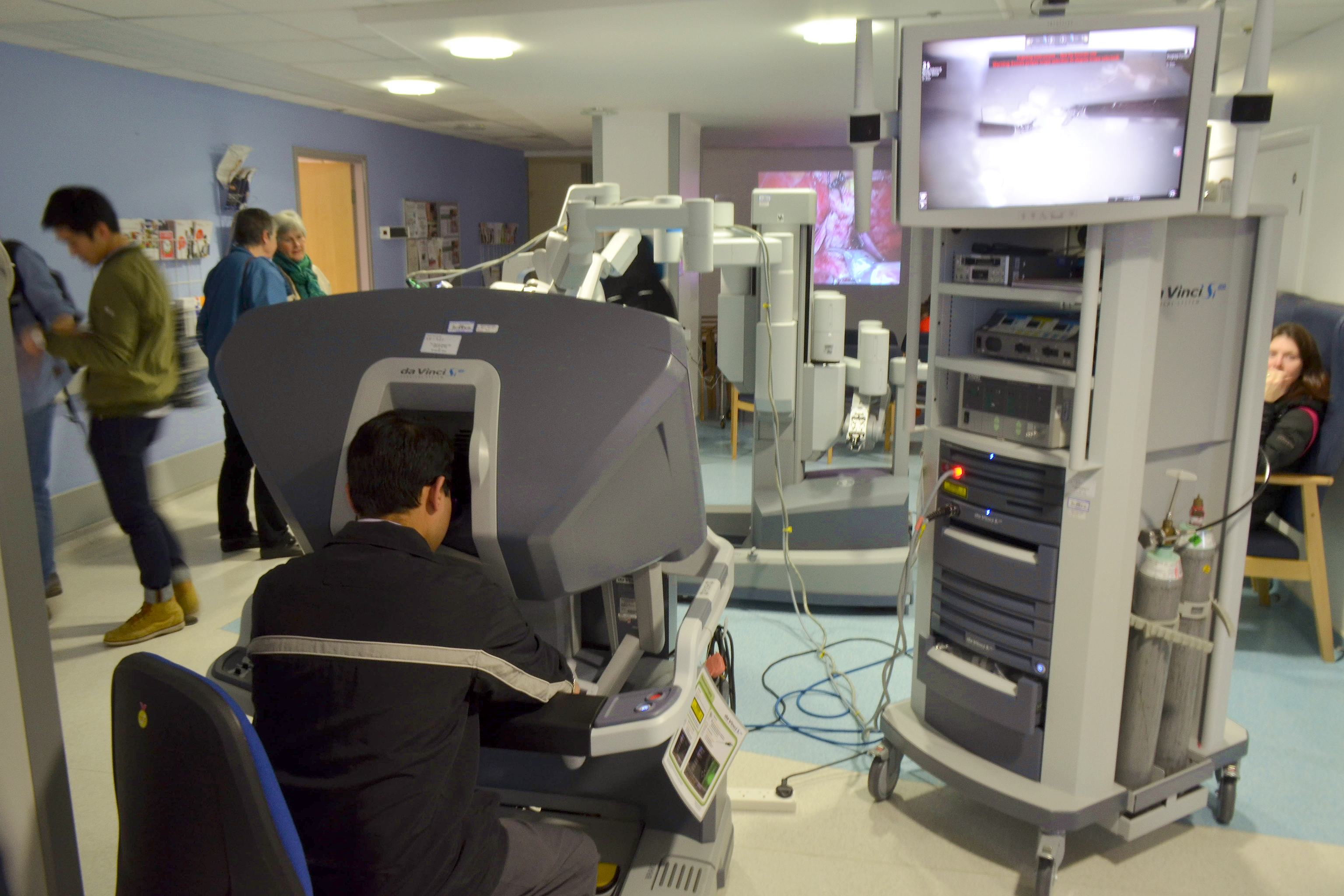 The surgeon console of a da Vinci Surgical System at Addenbrooke's Treatment Centre during the 2015 Cambridge Science Festival.